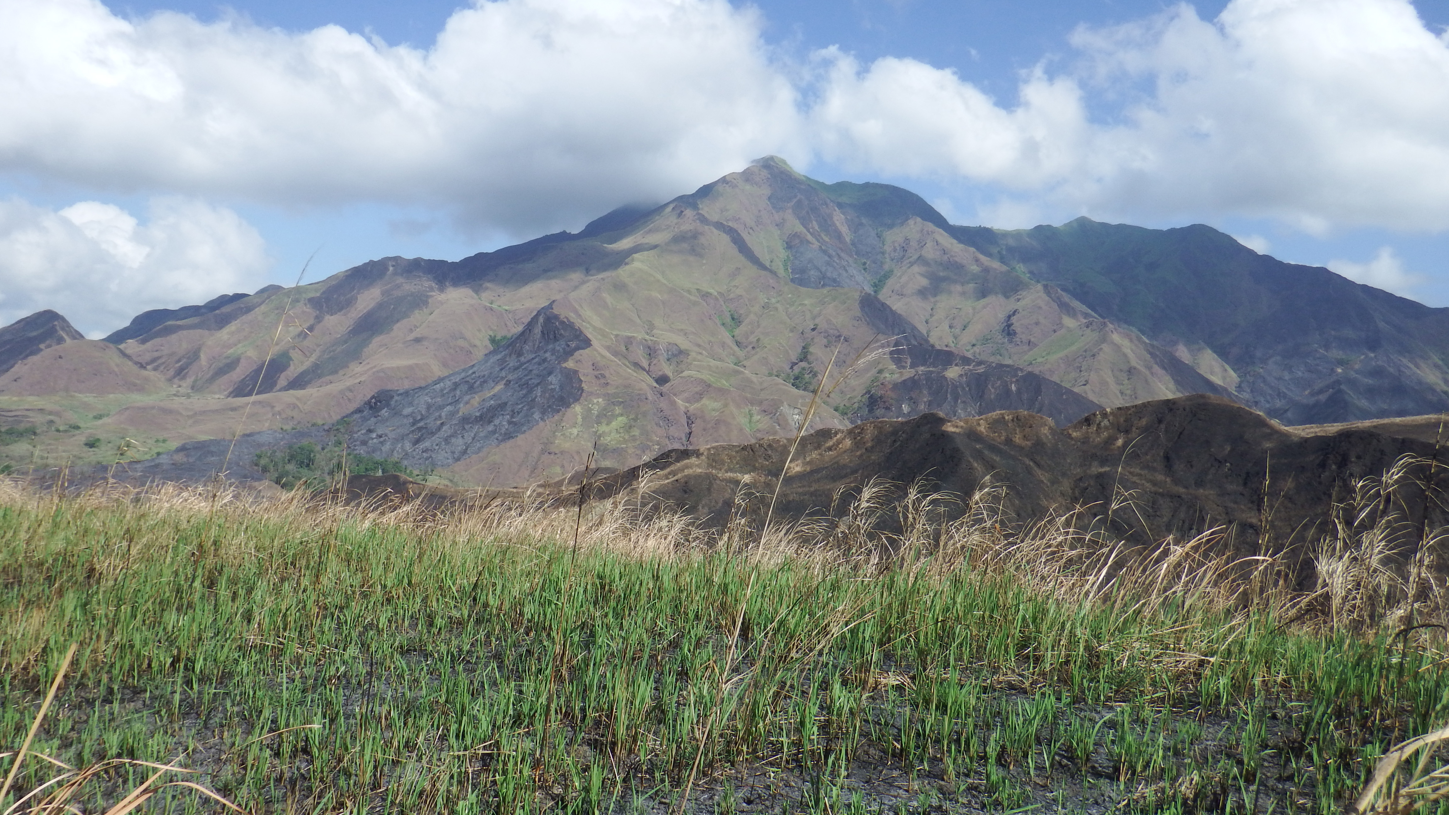 Mount Iglit - (Mounts Iglit - Baco National Park, Occidental Mindoro, Philippines)